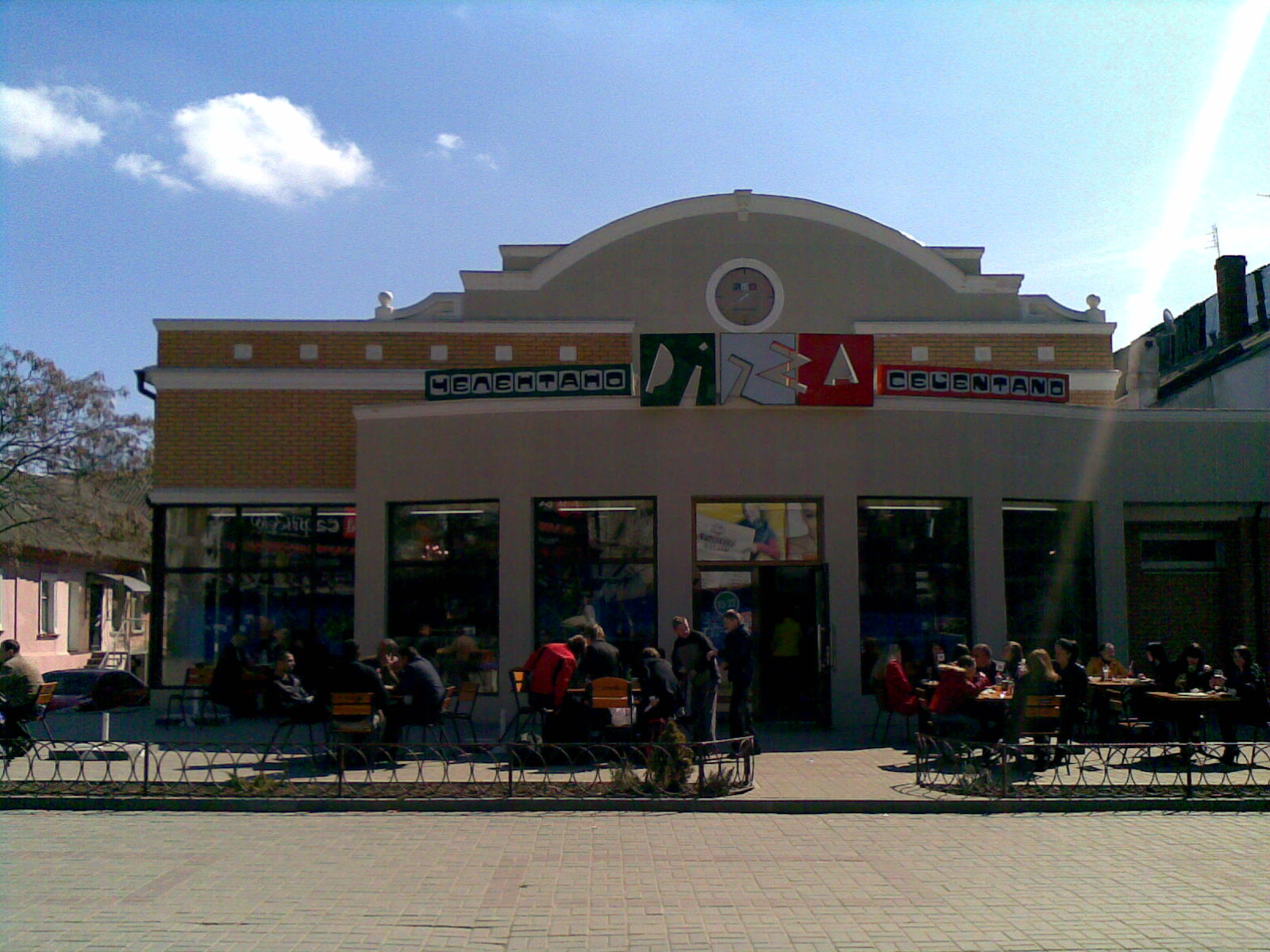 Pizza (Suvorov street)